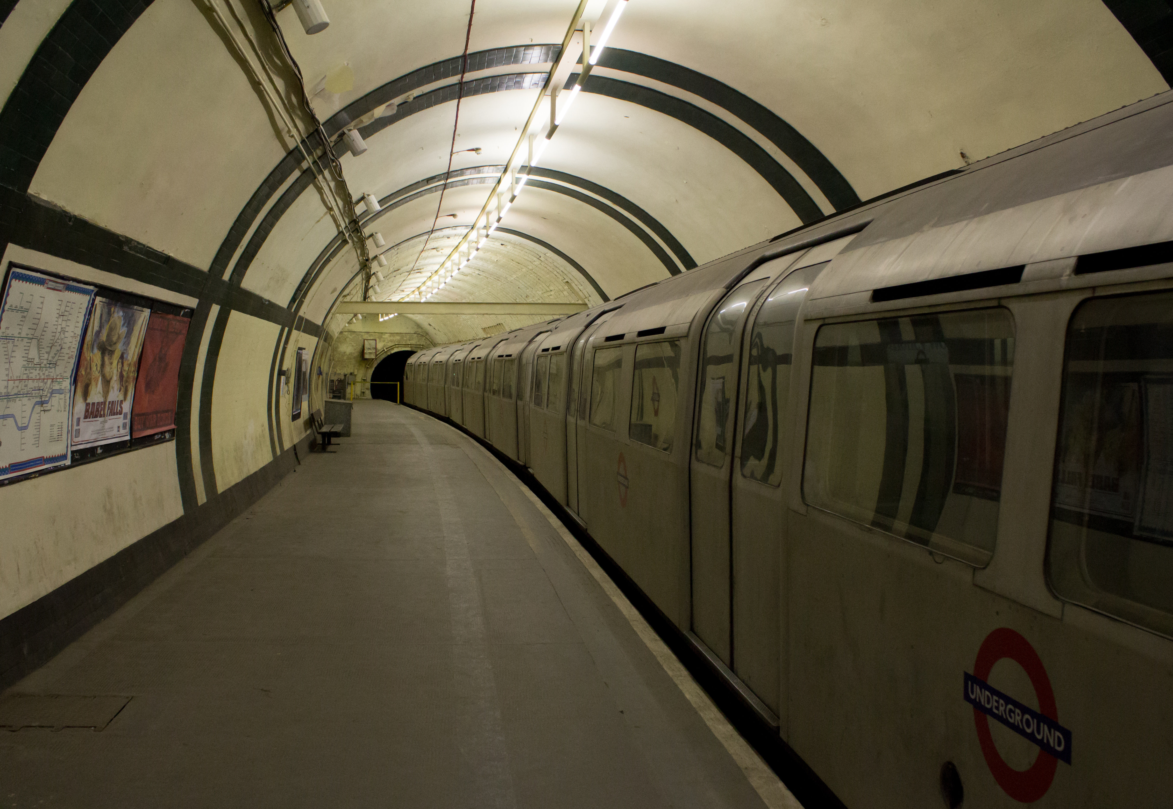 Aldwych Station Western Platform with 1972 Mark 1 tube rolling stock for filming purposes Wikidata has entry Q990658 with data related to this item.